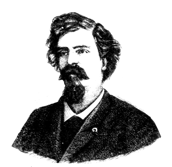 Achilleas Paraschos (1838-1895): Greek poet